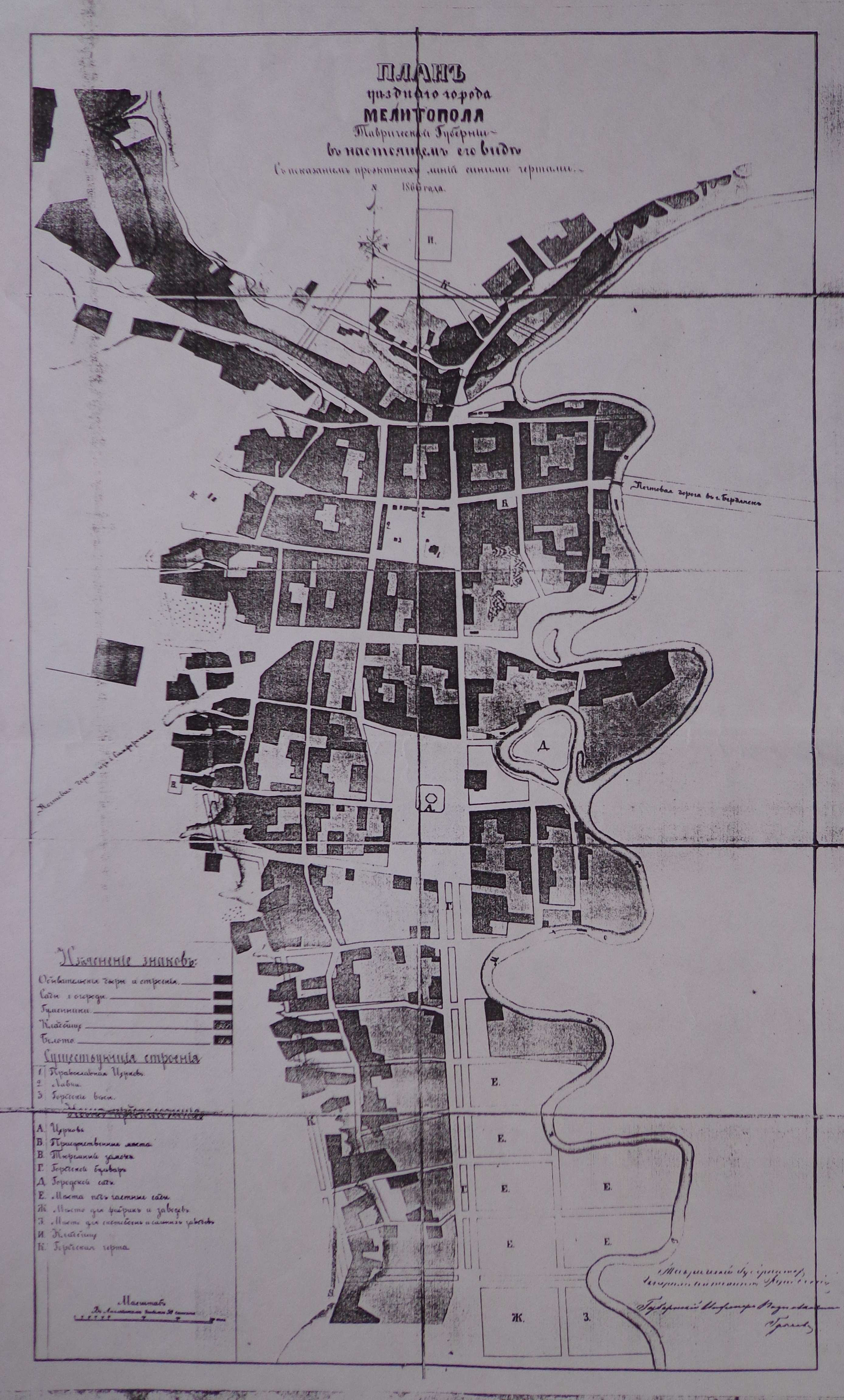 Map of Melitopol, Ukraine, year 1866